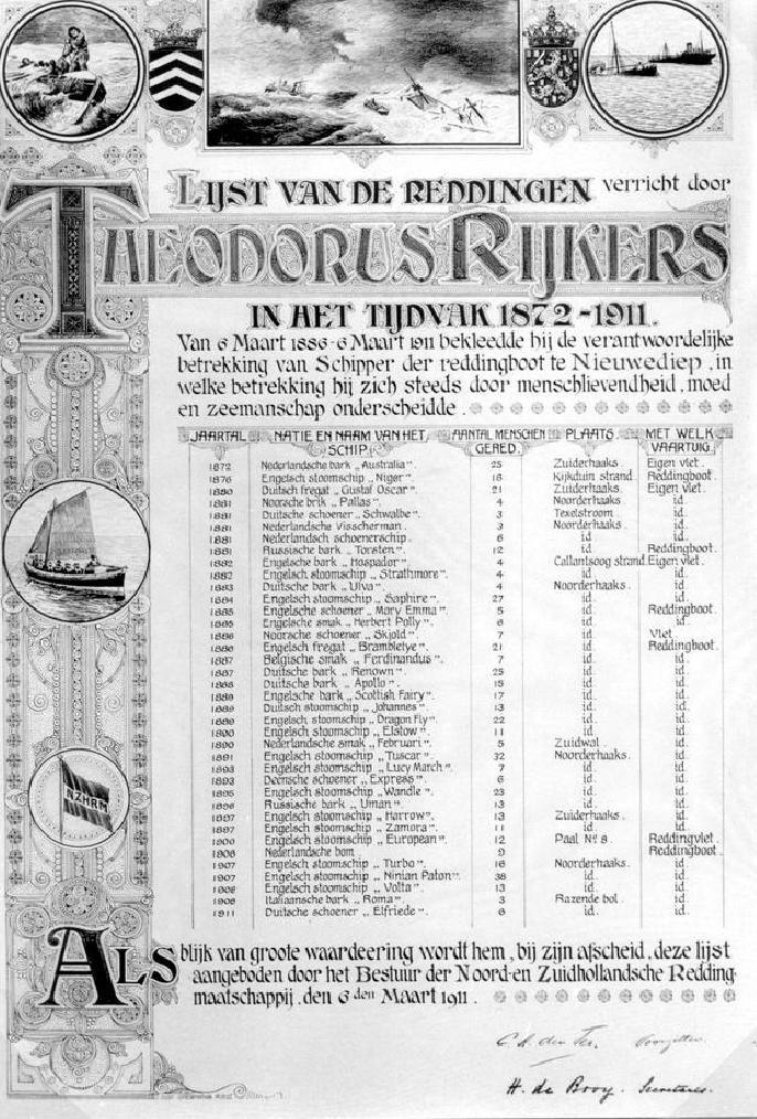 Dorus Rijkers' decorated list of rescues. The Rescue of the Renown can be seen listed under 1887.